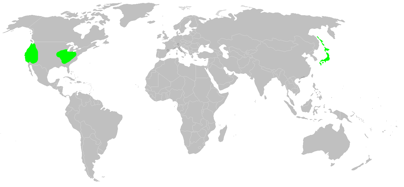 Antrodiaetidae habitat distribution, drawn after Platnick: World Spider Catalog 7.0. This is not a precise rendering of the distribution! If you have better information, please replace this map, or send me the info, so i will redraw it.